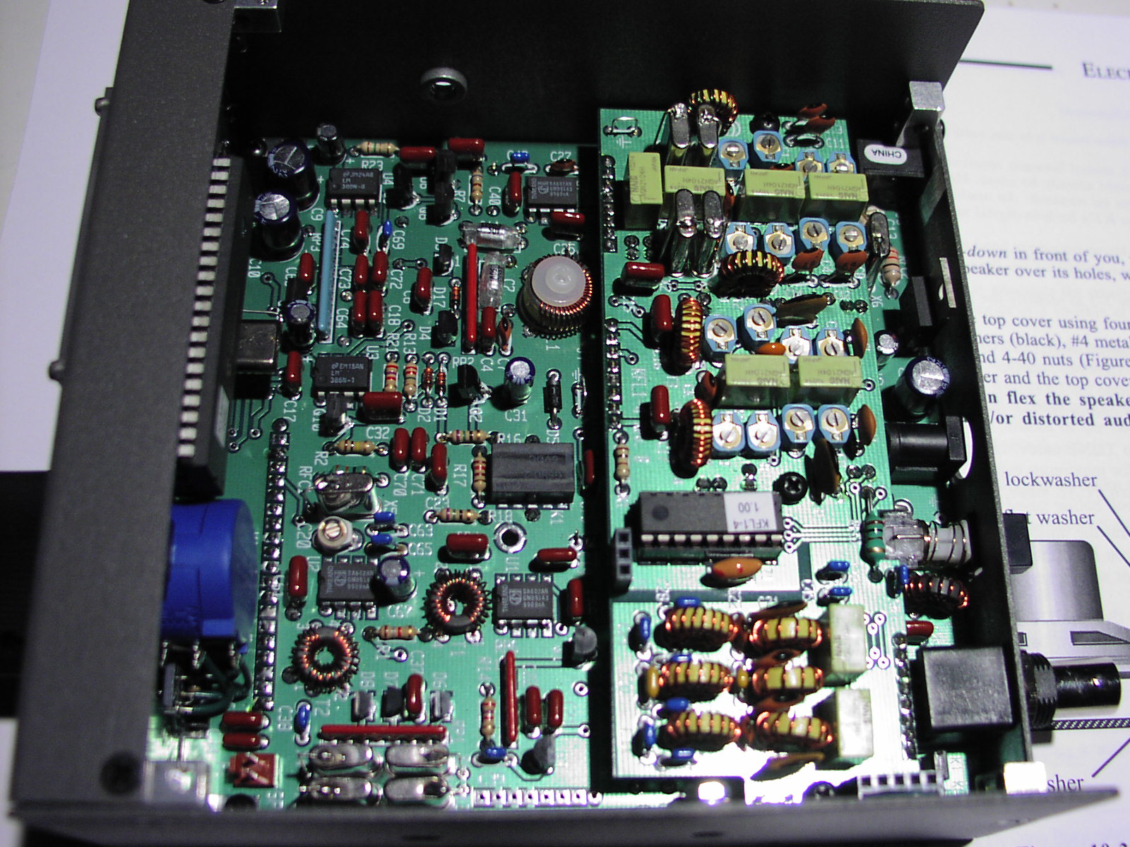 A picture of my taking from my construction of an Elecraft K1 ; in this picture the construction is complete (and the top removed). The raised board is a 4-band filter.